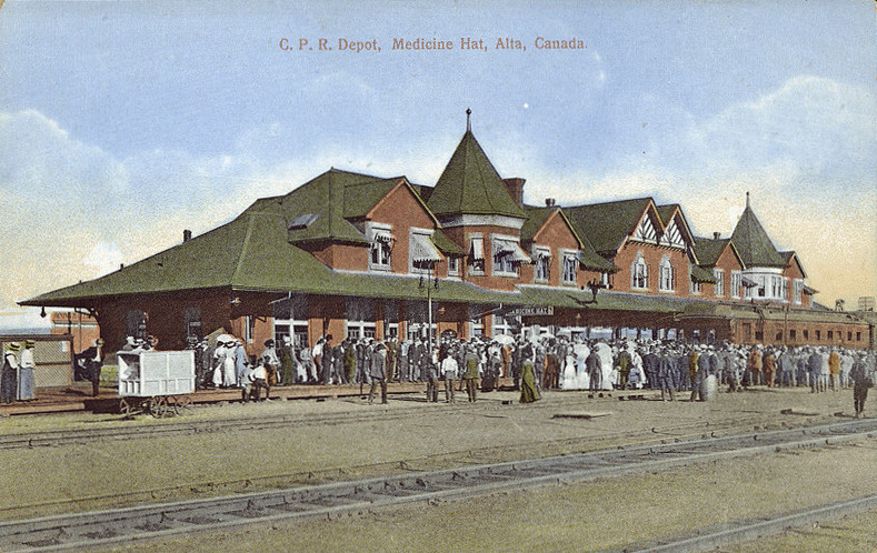 Postcard 4390 Rumsey & Co (Publisher) . C.P.R. Depot Medicine Hat, Alta, Canada.. Toronto: Rumsey & Co., 1528 Queen St. West. Toronto, Canada, [1910]. Description: Exterior view of the Canadian Pacific Railway Depot, Medicine Hat, with crowds gathered in front. Physical description: 1 postcard : col. ; 9 x 14 cm. Language: English